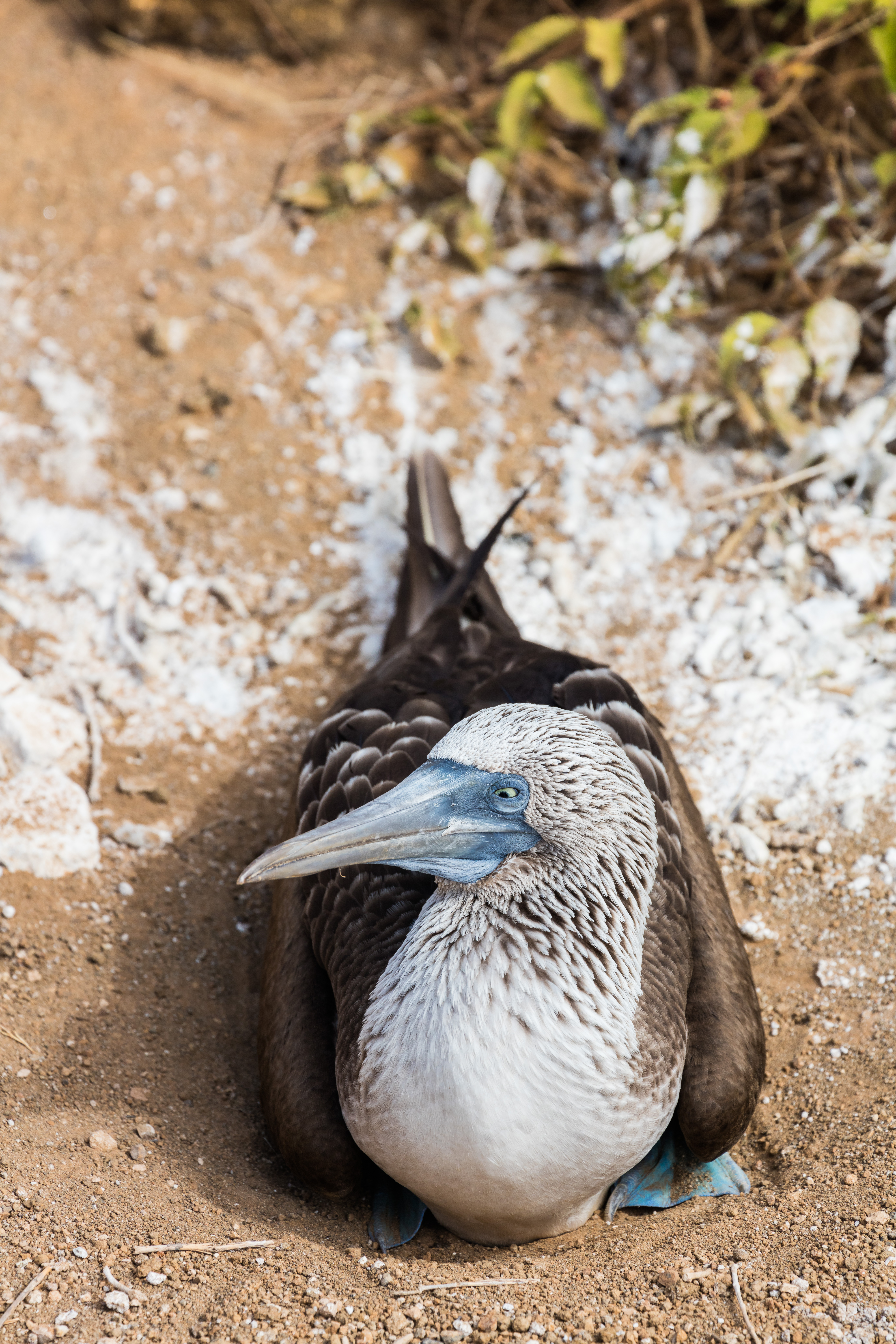 Blue-footed booby (Sula nebouxii), Punta Pitt, San Cristobal Island, Galapagos Islands, Ecuador